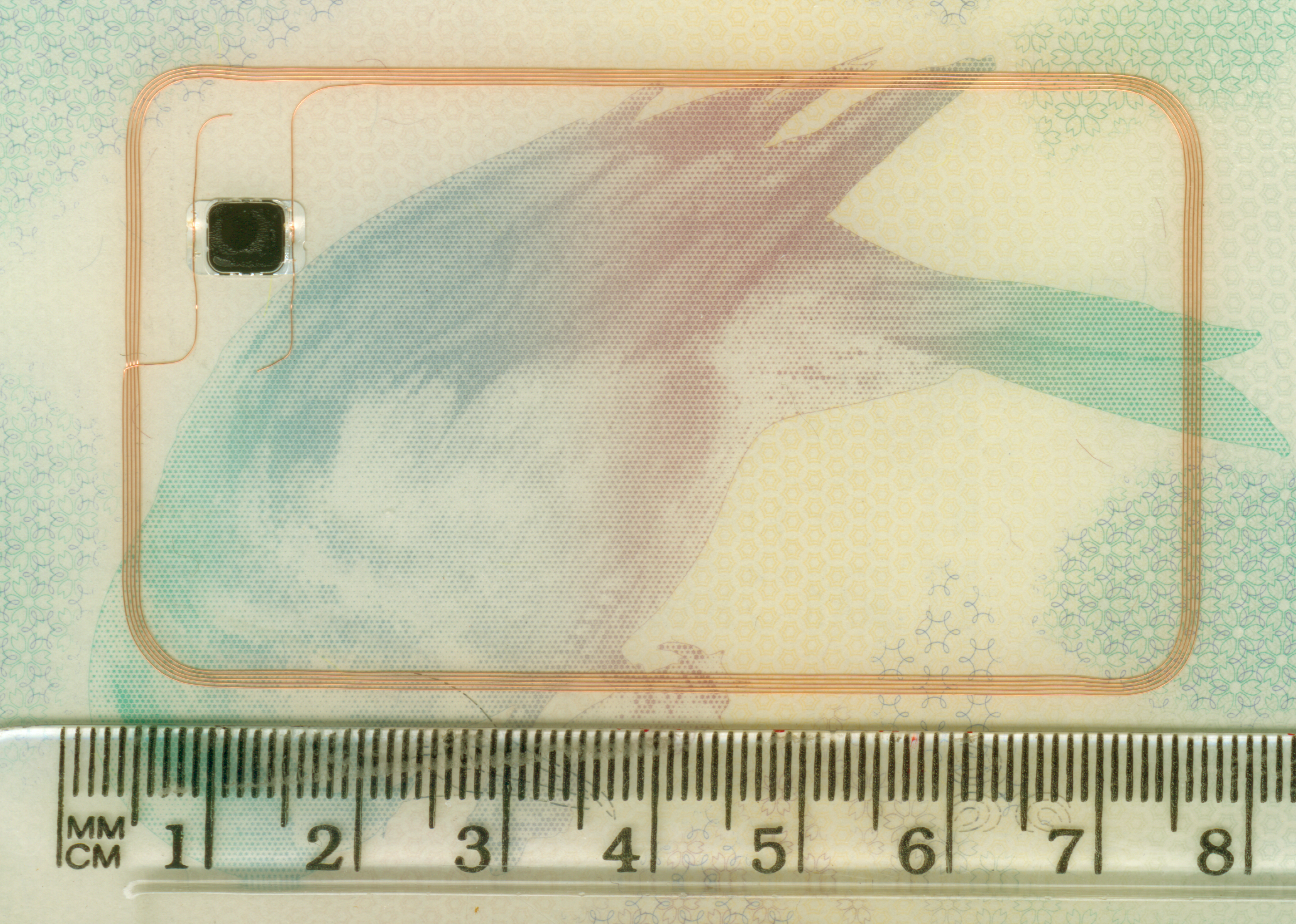 The chip and aerial loop on a recently-issued British biometric passport. The chip contains the same information as the human-readable page, i.e. details and photograph. A ruler is included for scale.